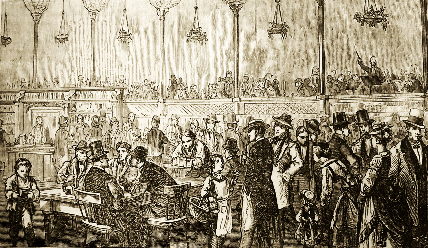 "Over the Rhine Saloon"